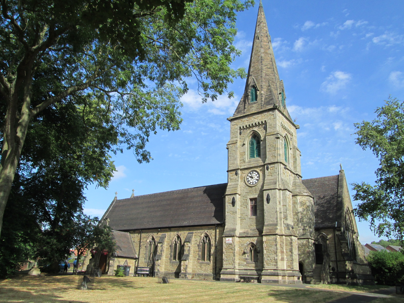 St Luke's Church in Silverdale, Staffordshire, seen from the south.